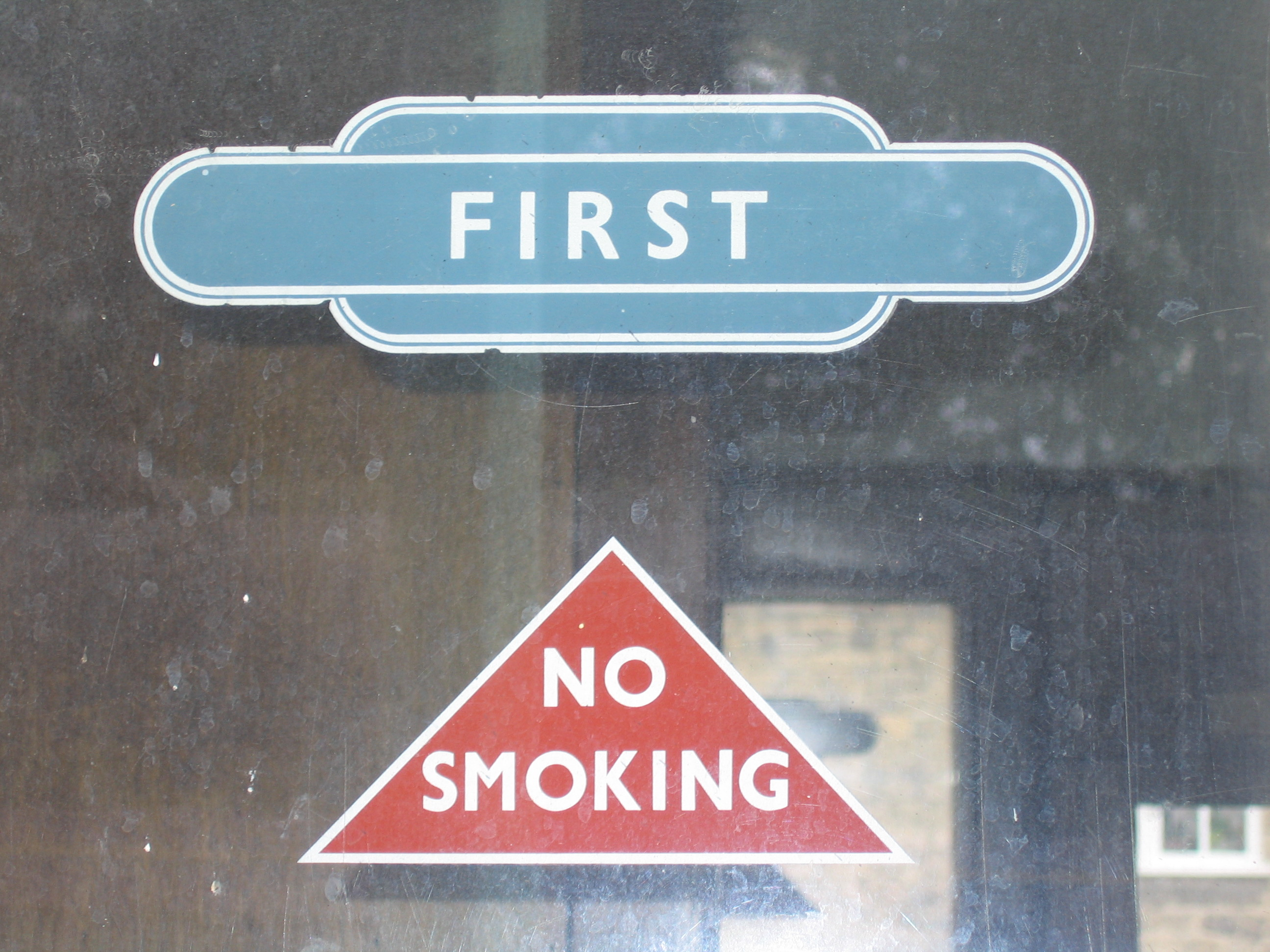 First-class-sign for windows of railway coaches, North Yorkshire Moors Railway